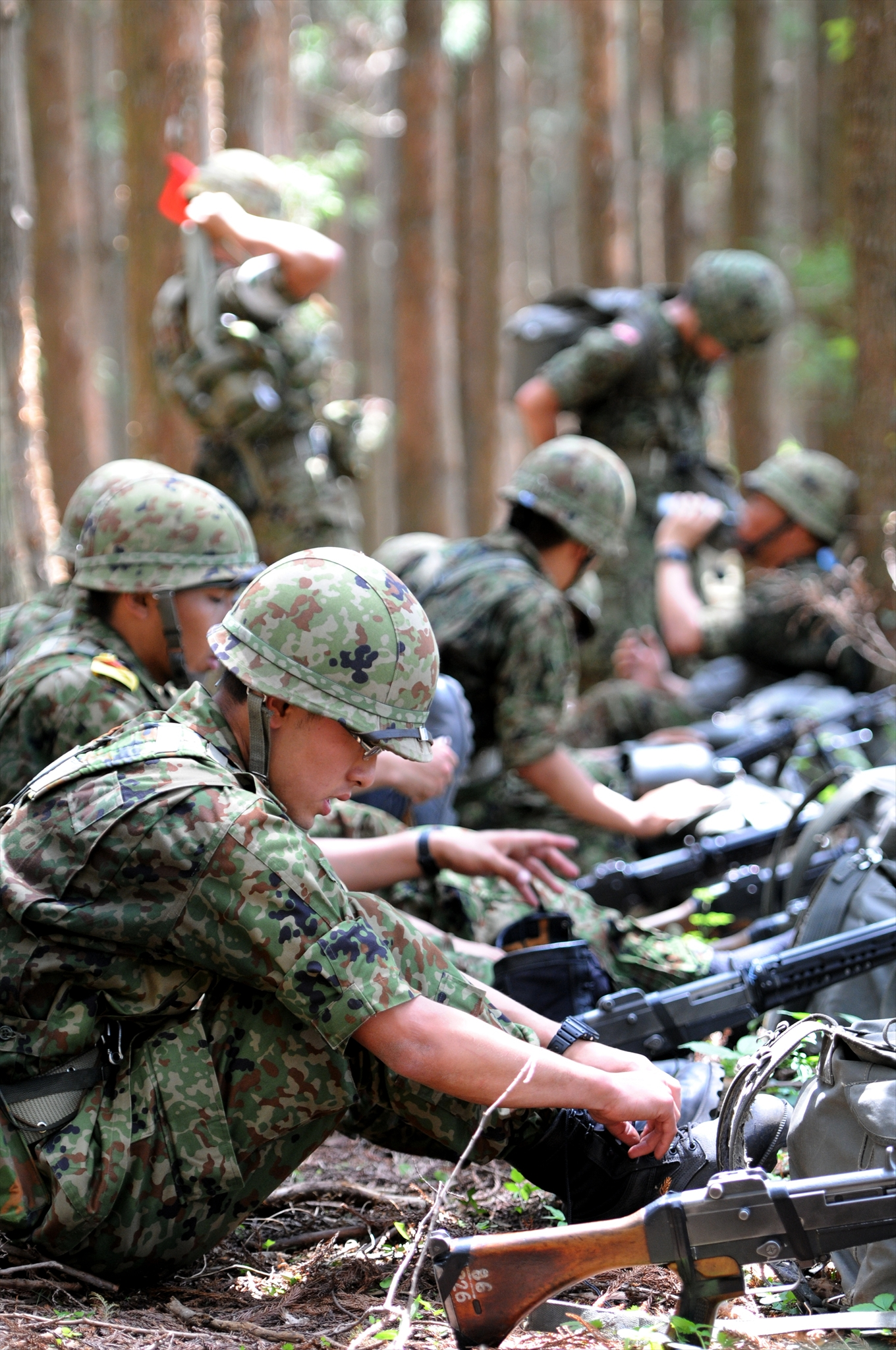 Title ECB-OO-8 (自衛官候補生行軍)_R.JPG Album 教育訓練等 行進訓練（自衛官候補生）